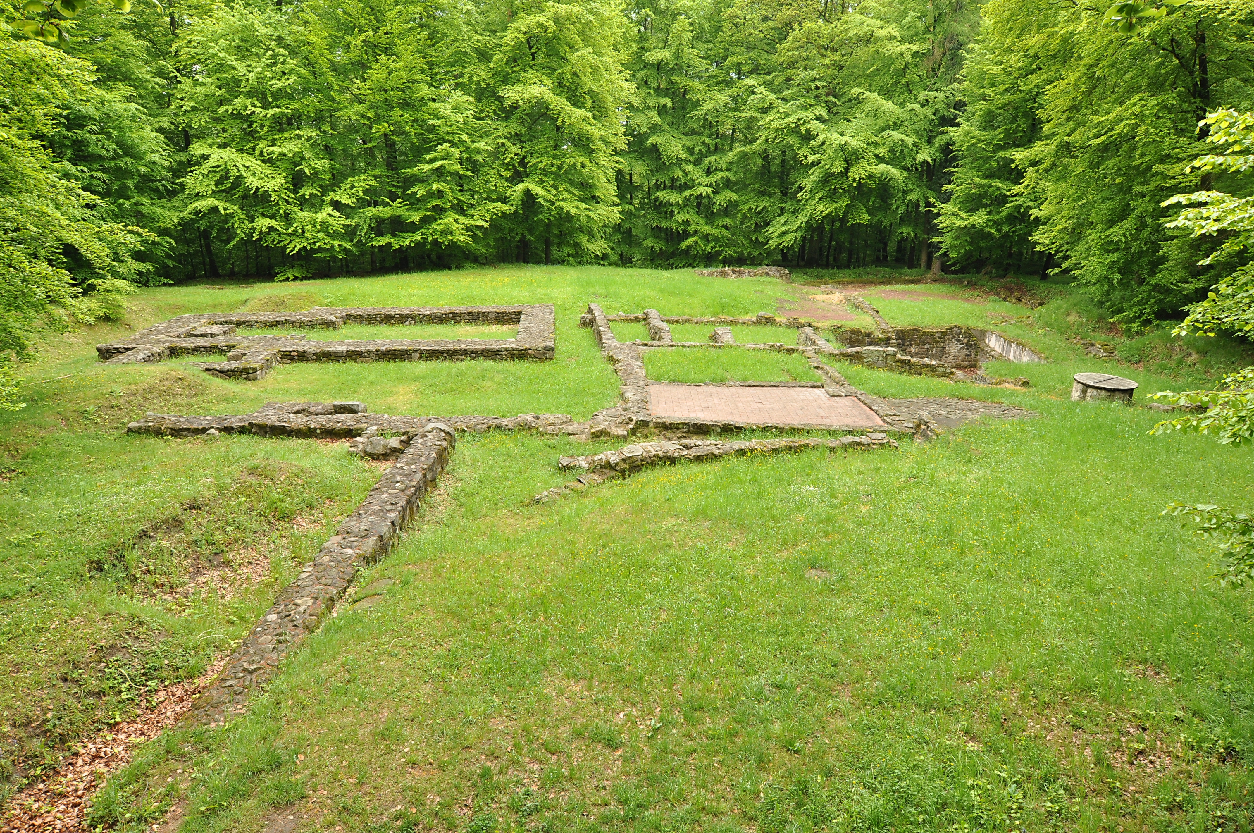 Ruin of the Augustinian nuns' monastery on the Baiselsberg between Sachsenheim-Hohenhaslach und Horrheim